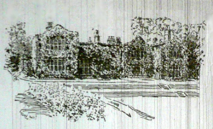 Drawing of Slead Hall from Arthur Comfort's series Our Home & Country.